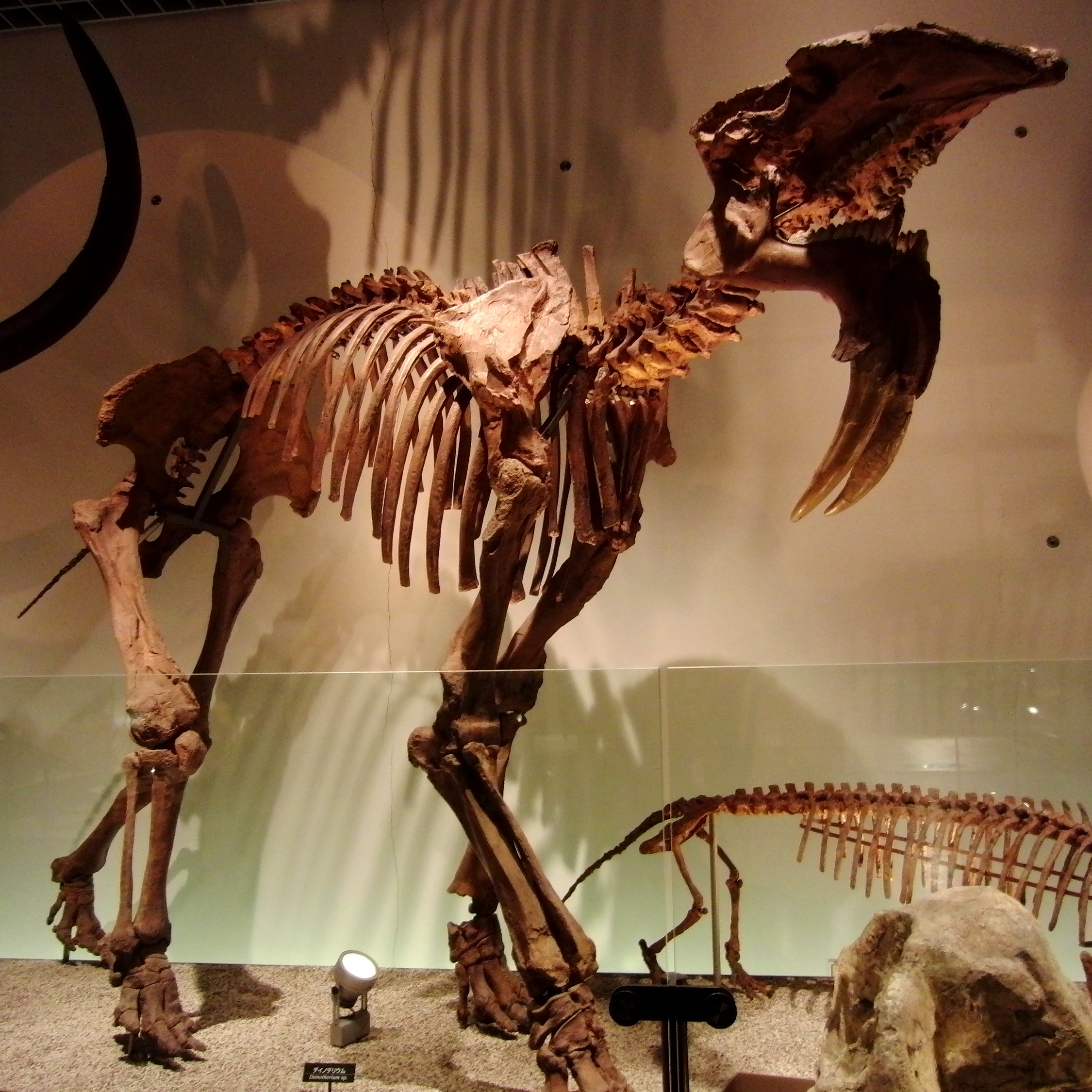 Skelton of Deinotherium (Deinotherium sp.). Exhibit in the National Museum of Nature and Science, Tokyo, Japan.